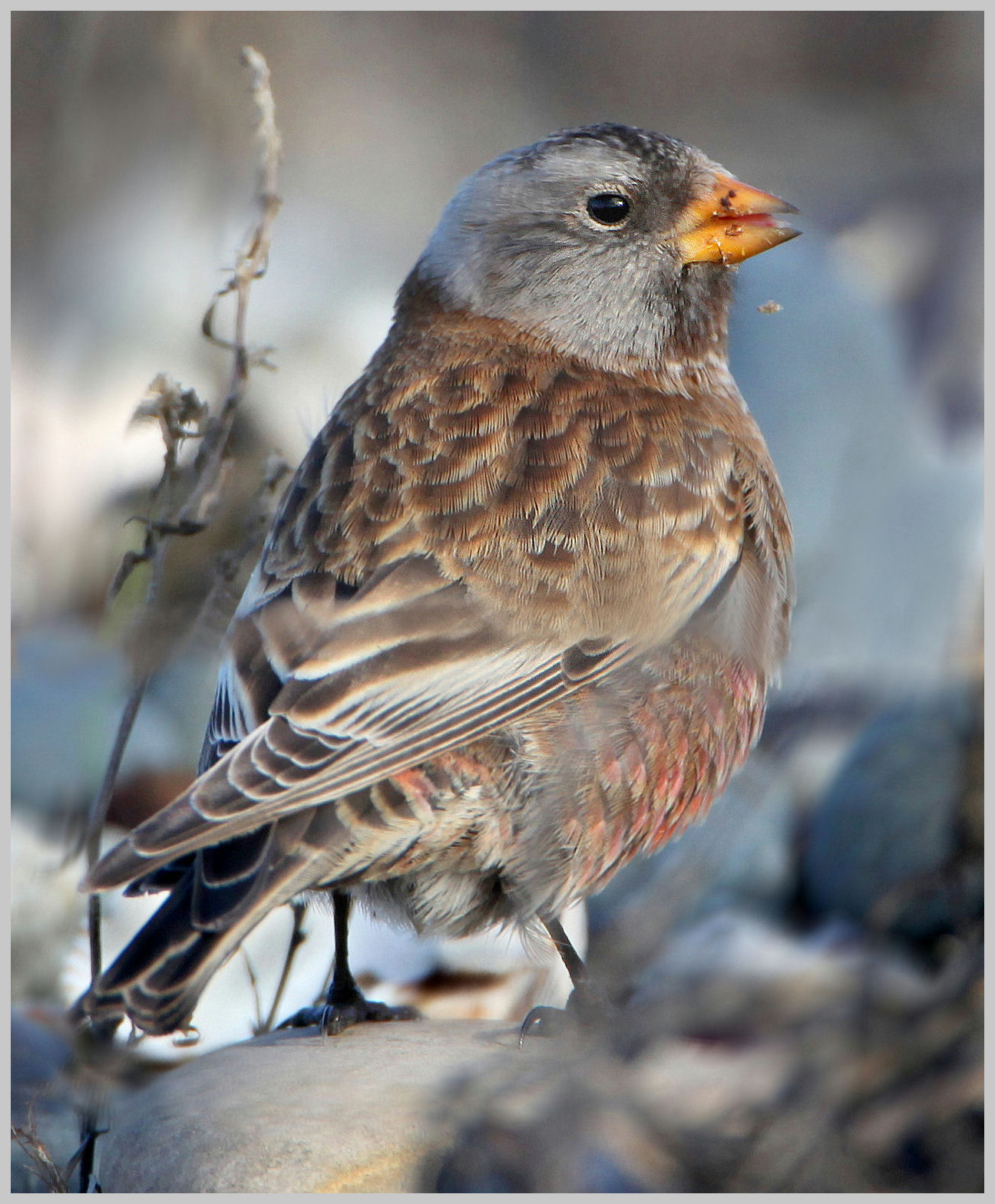 Gray-crowned Rosy Finch Leucosticte tephrocotis, British Columbia, Canada